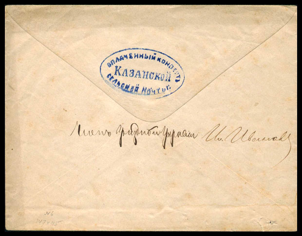 Russian Empire stempel envelope issued by Kazan Uyezd Zemstvo